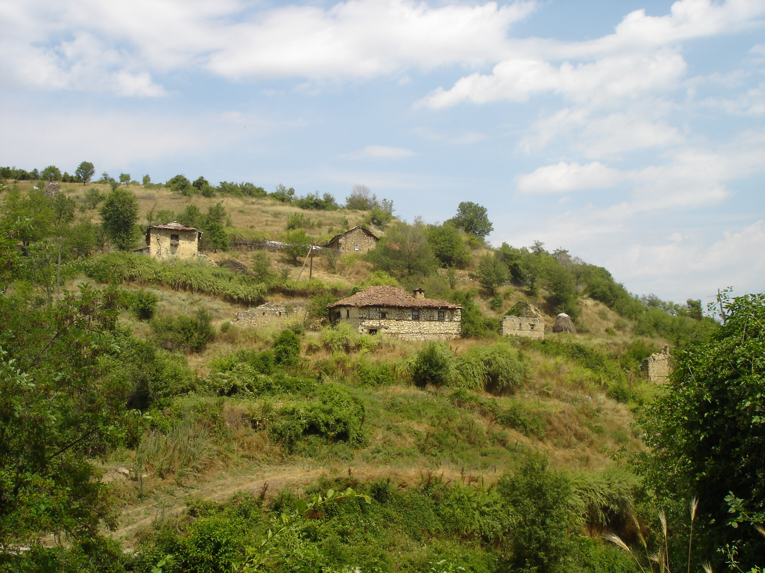 village of Gradovci, Macedonia